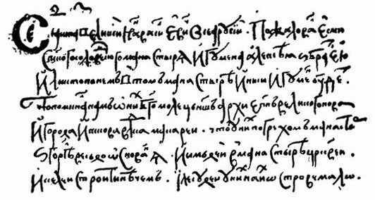 Gramota